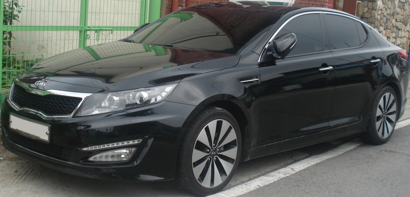 Kia K5